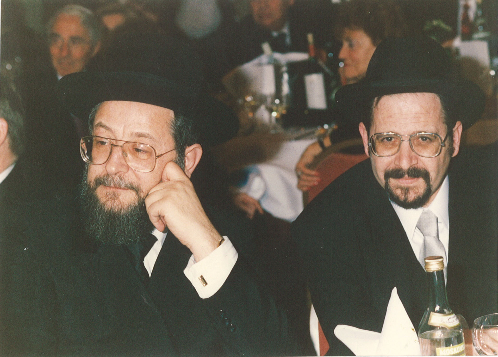 Rabbi Ahron Daum with the Chief Rabbi of Israel, Israel Meir Lau